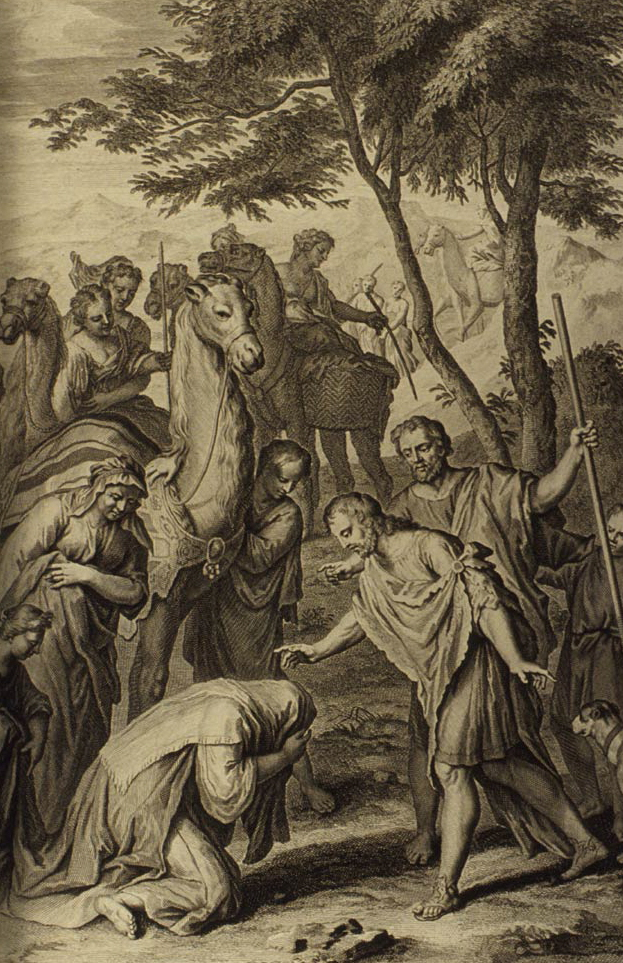 Rebecca lights off the Camel, and covers her self with a vail, as in Genesis 24:64-67: "And Rebekah lifted up her eyes, and when she saw Isaac, she lighted off the camel. For she had said unto the servant, What man is this that walketh in the field to meet us? And the servant had said, It is my master: therefore she took a veil, and covered herself. And the servant told Isaac all things that he had done. And Isaac brought her into his mother Sarah's tent, and took Rebekah, and she became his wife; and he loved her: and Isaac was comforted after his mother's death." (KJV); illustration from the 1728 Figures de la Bible; illustrated by Gerard Hoet (1648-1733) and others, and published by P. de Hondt in The Hague; image courtesy Bizzell Bible Collection, University of Oklahoma Libraries